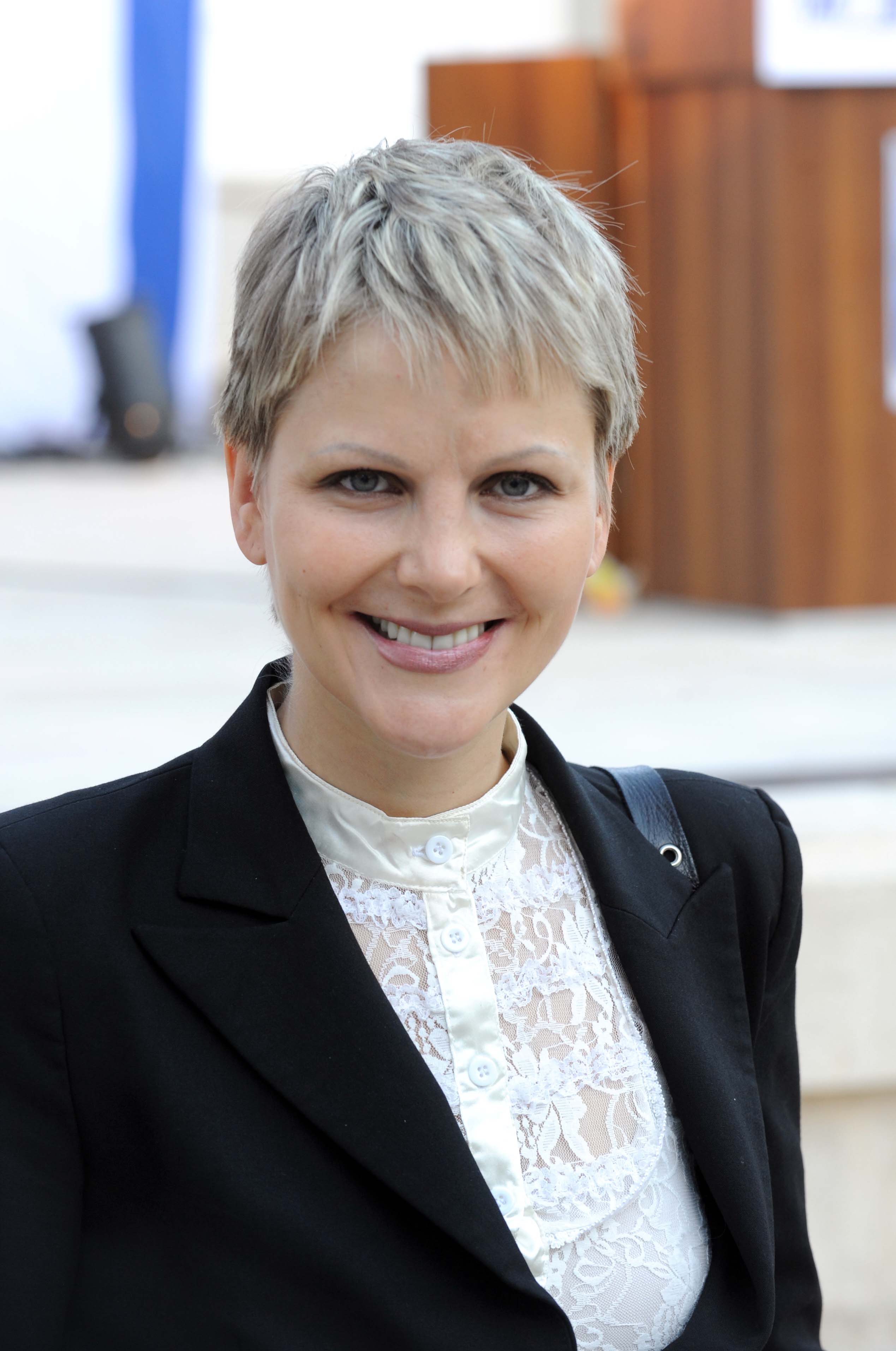 Graduation ceremony of the National Defense College held at Mount Scopus, Jerusalem. Photo: MK Anastassia Michaeli.